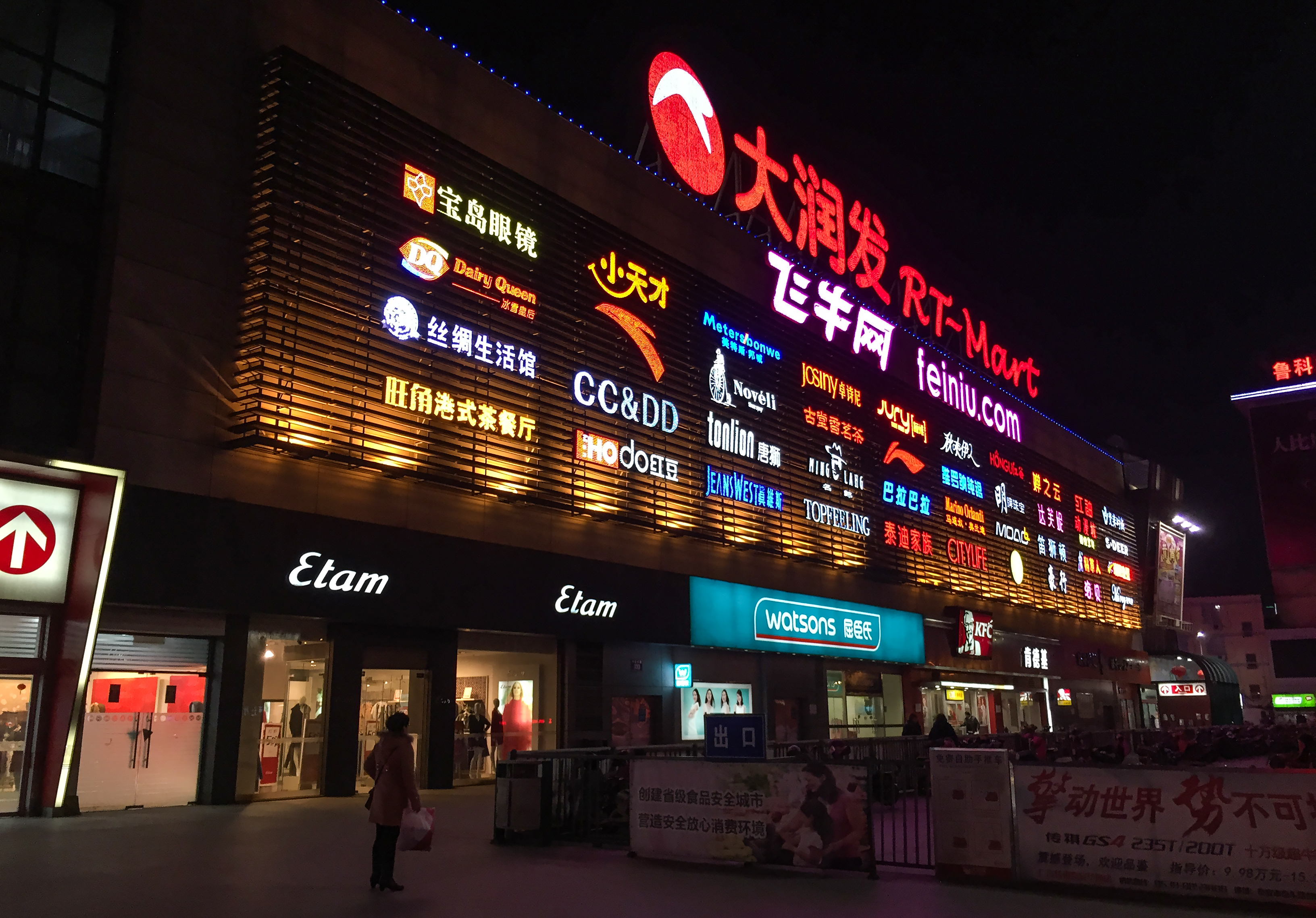 Not so far from Taishan Railway Station.